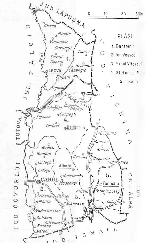 Map of Cahul interwar county, Kingdom of Romania (1938).